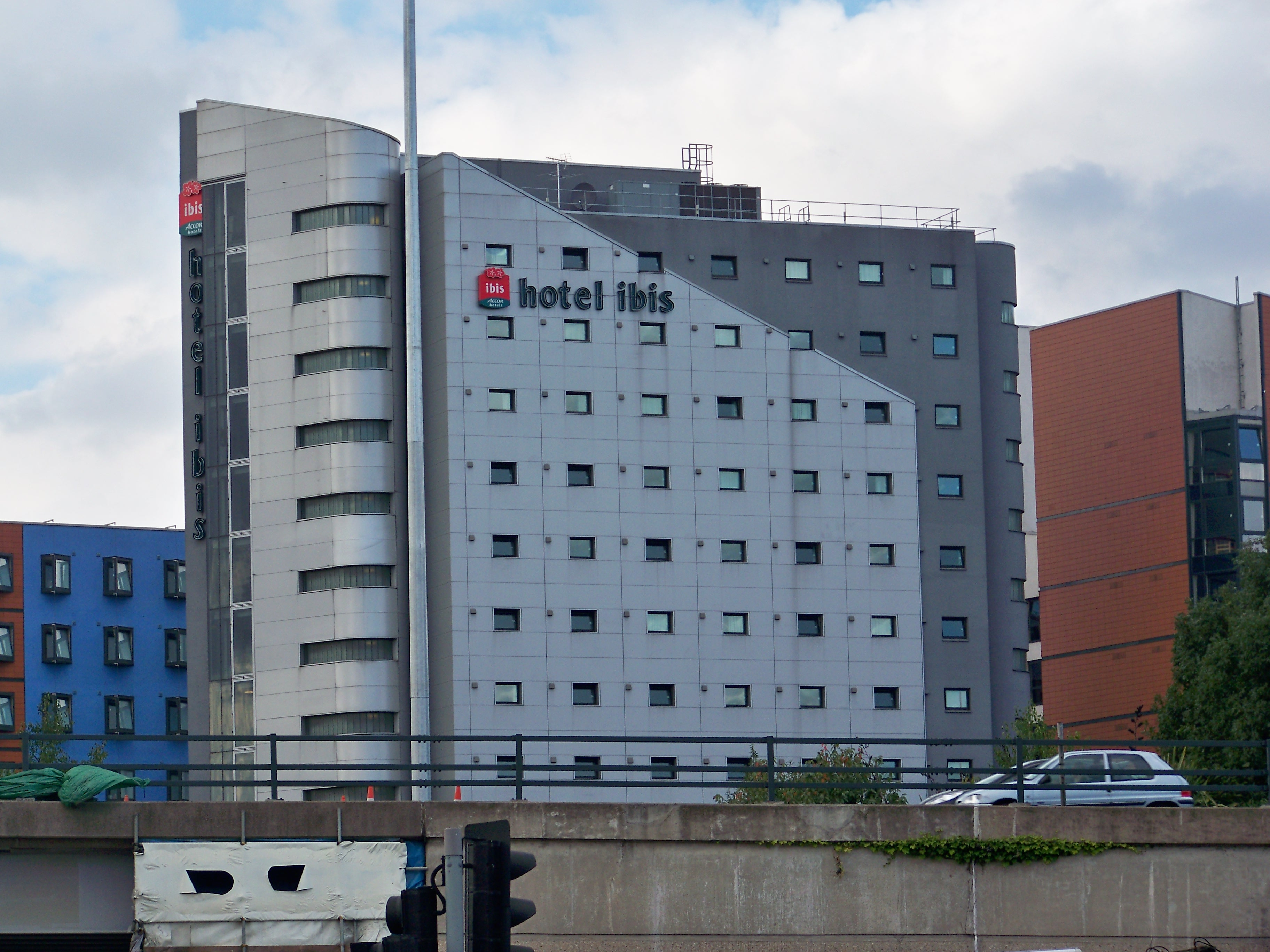 Ibis Hotel in Leeds. The flyover in the foreground is for the A58(M) Leeds Inner Ring Road. Taken on the afternoon of Tuesday 15th September 2009.